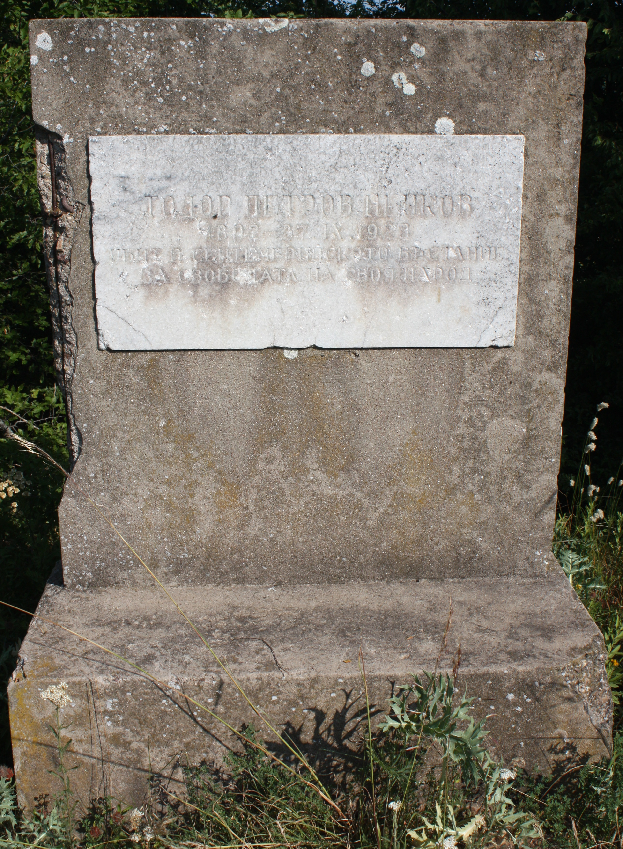 Снимка на паметник на Тодор Петров Кънчев (Ненков)